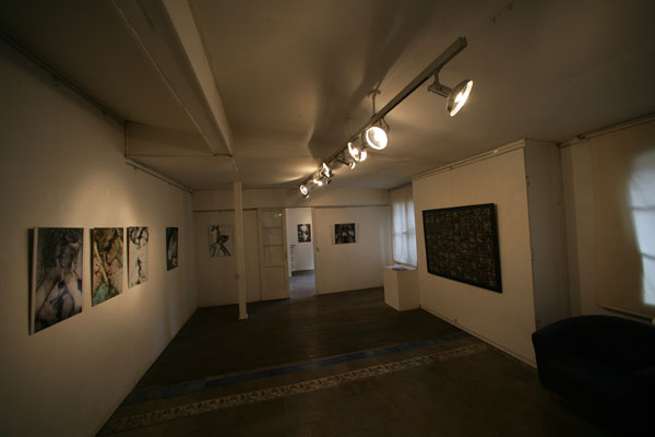 Salle de la galerie Humus